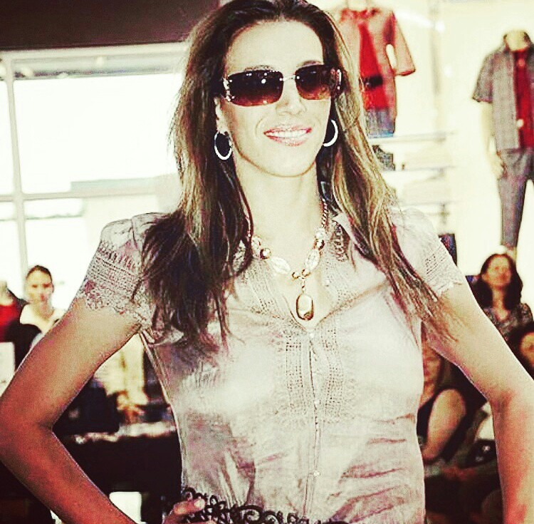 Nicole Midwin walks the runway at the Nygard International Show